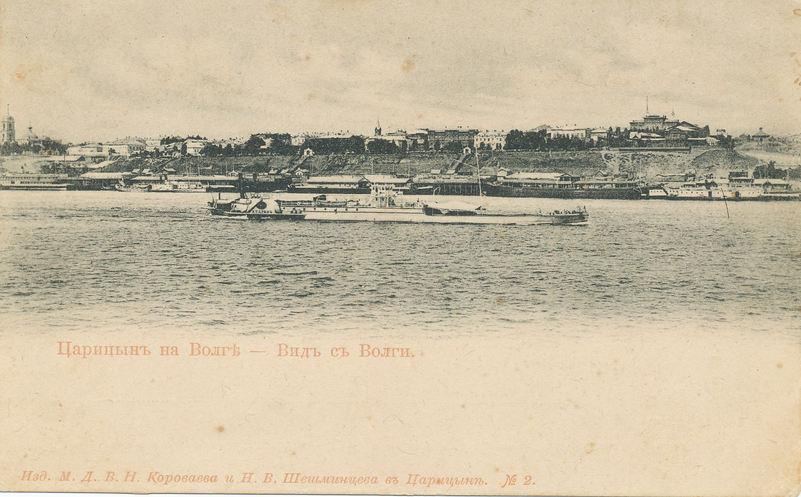 The Tsarist city of Tsaritsyn on the Volga — the view from the Volga. The renamed-present day city of Volgograd.